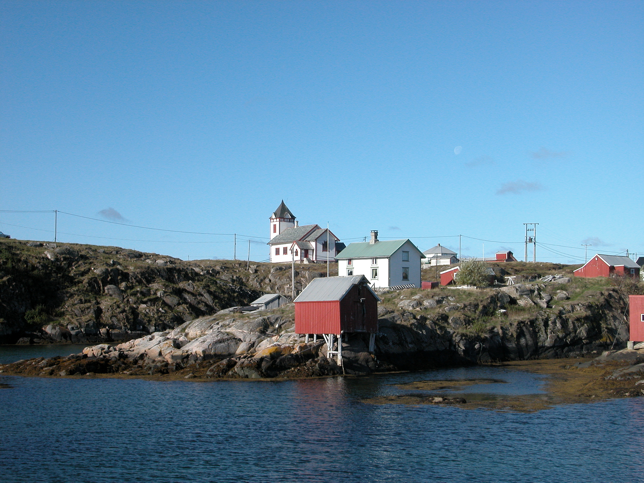 Froan kapell på avstand, fra Kulturminnebilder.no